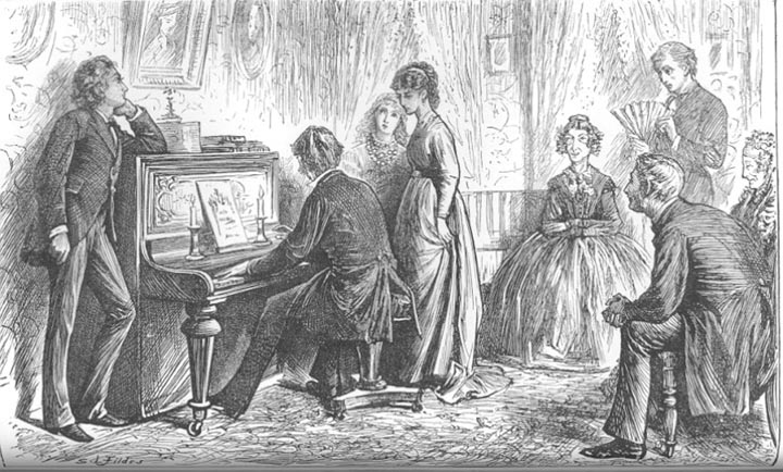 Helena Landless standing next to the piano in The Mystery of Edwin Drood